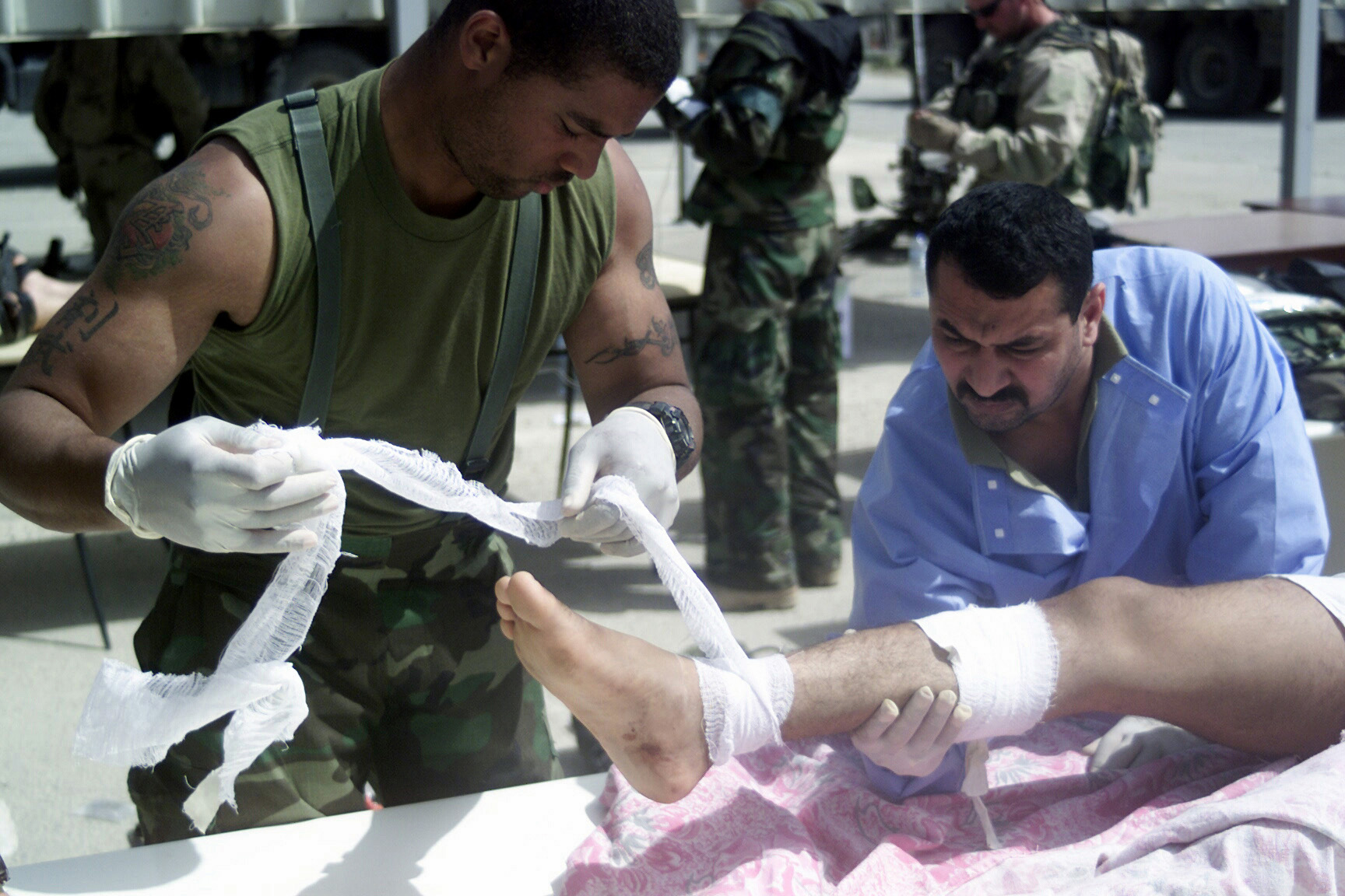 A US Navy (USN) Hospital Corpsman assigned to the 15th Marine Expeditionary Unit (MEU), assist a civilian Iraqi doctor with providing medical aid to an Iraqi civilian, injured during fighting between Insurgents and Coalition forces near Umm Qasr, Iraq